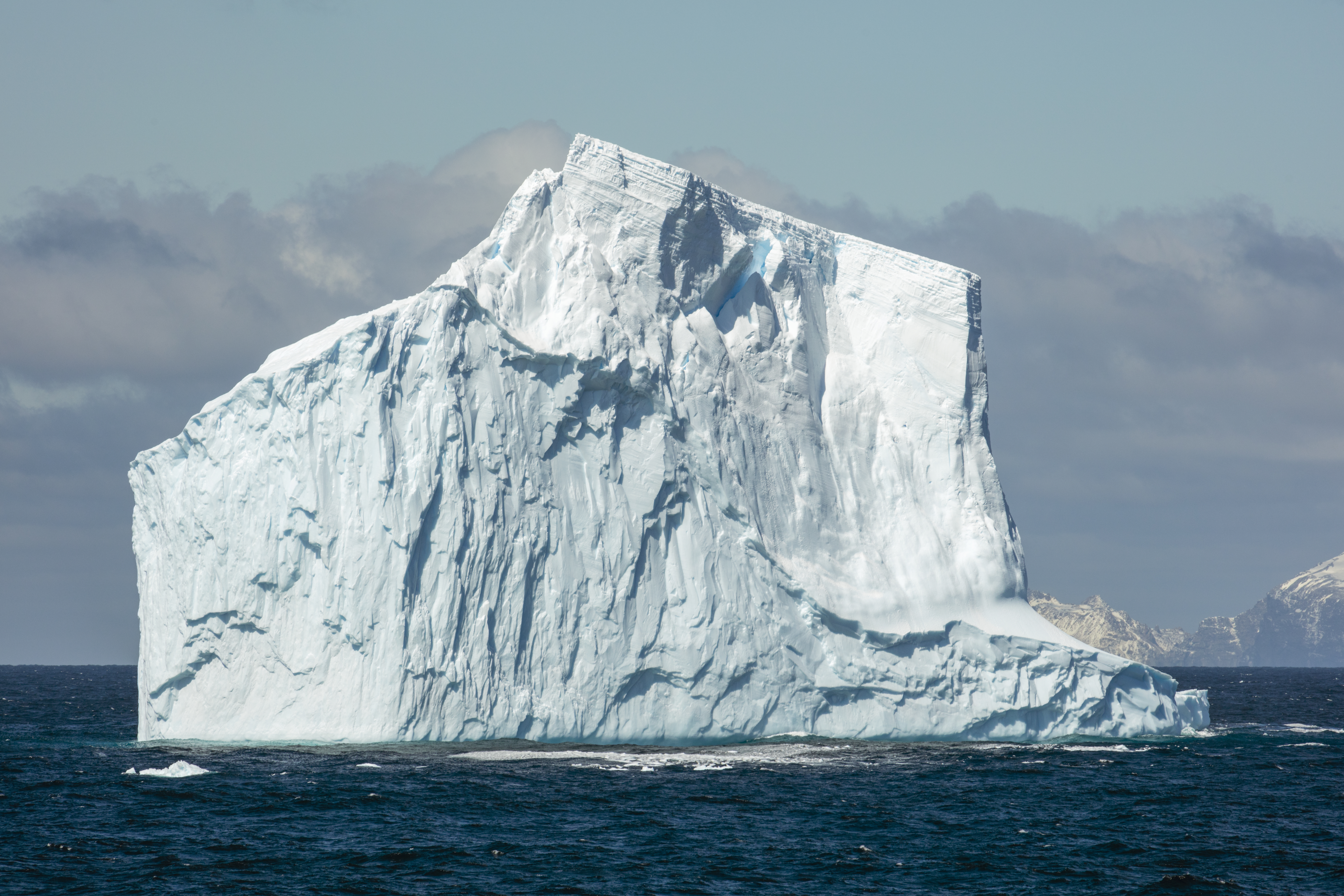 Iceberg, Southern Ocean, 18 miles from Elephant Island, South Shetland Islands